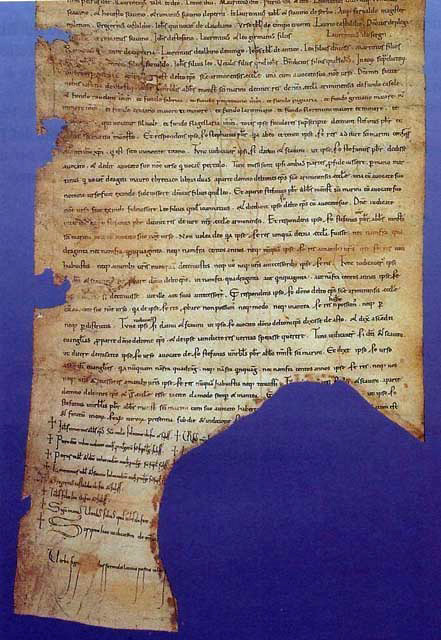 Placito Fetrano of XI century, copy of original document of 885, Archivio di Stato di San Marino, City of San Marino (SMR)